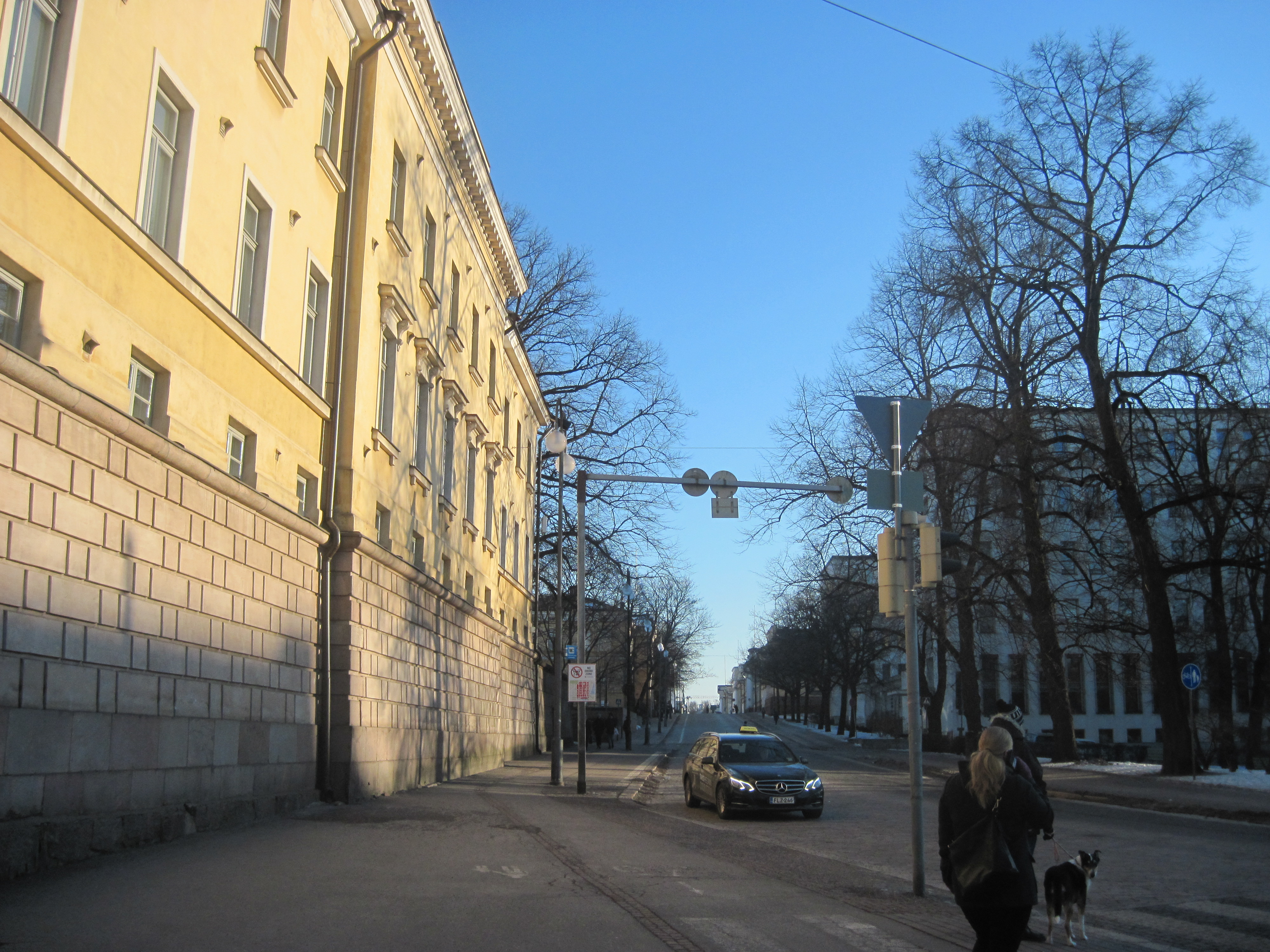 Old hospital building at Unioninkatu 37, Helsinki